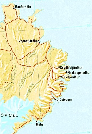 Map of East Iceland